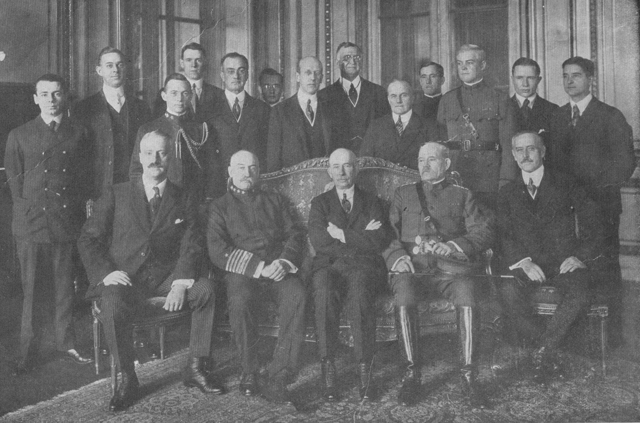 "Seated on the sofa are Admiral Benson, Chief of Naval Operations; Colonel House, head of the mission; and General Tasker H. Bliss, Chief of Staff. They took part in the Inter-Allied Conference which began November 29, 1917. General Bliss remained as America's permanent representative in the Supreme War Council held at Versailles." (caption)